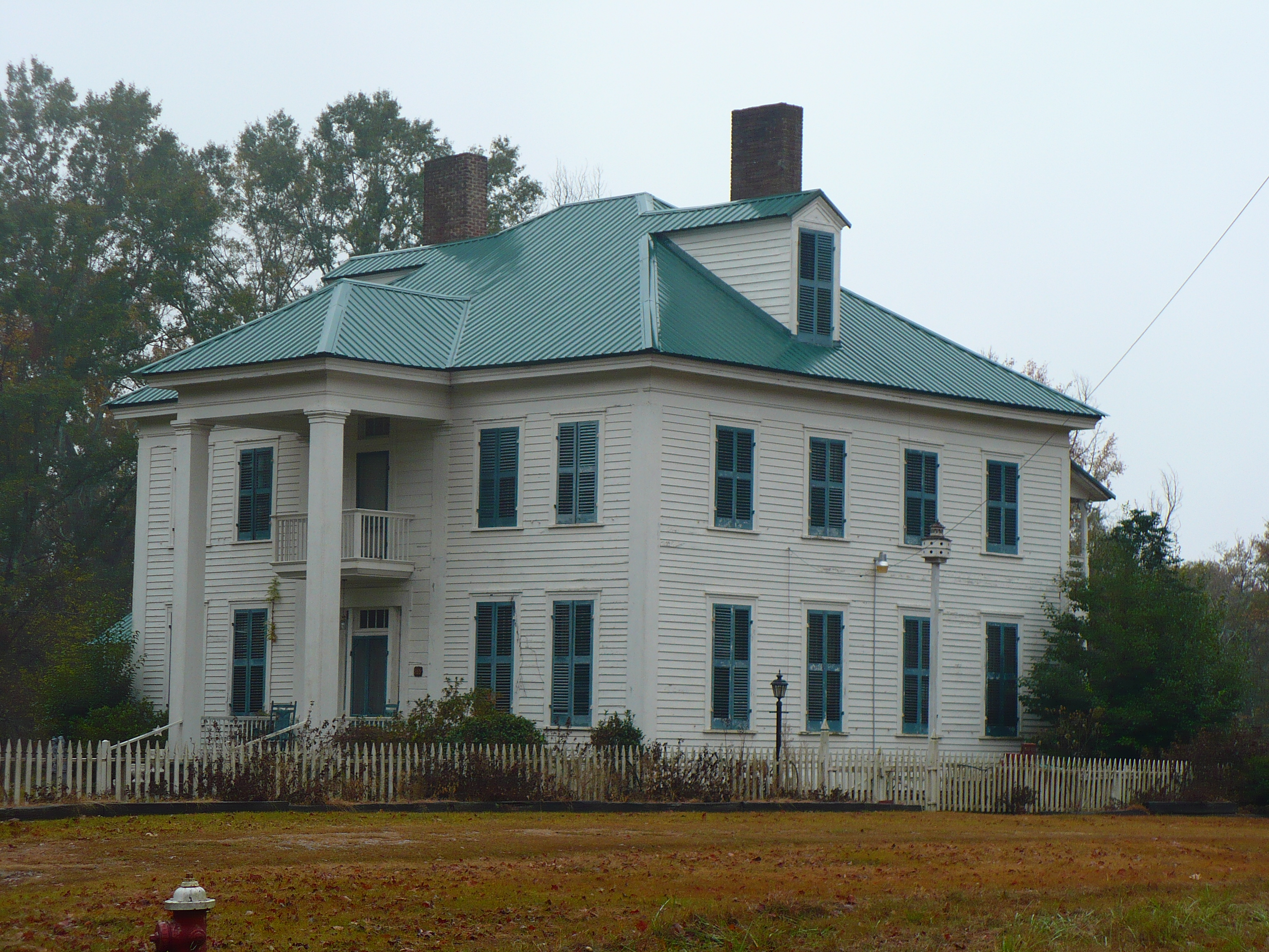 Allen Grove in Old Spring Hill, Marengo County, Alabama.